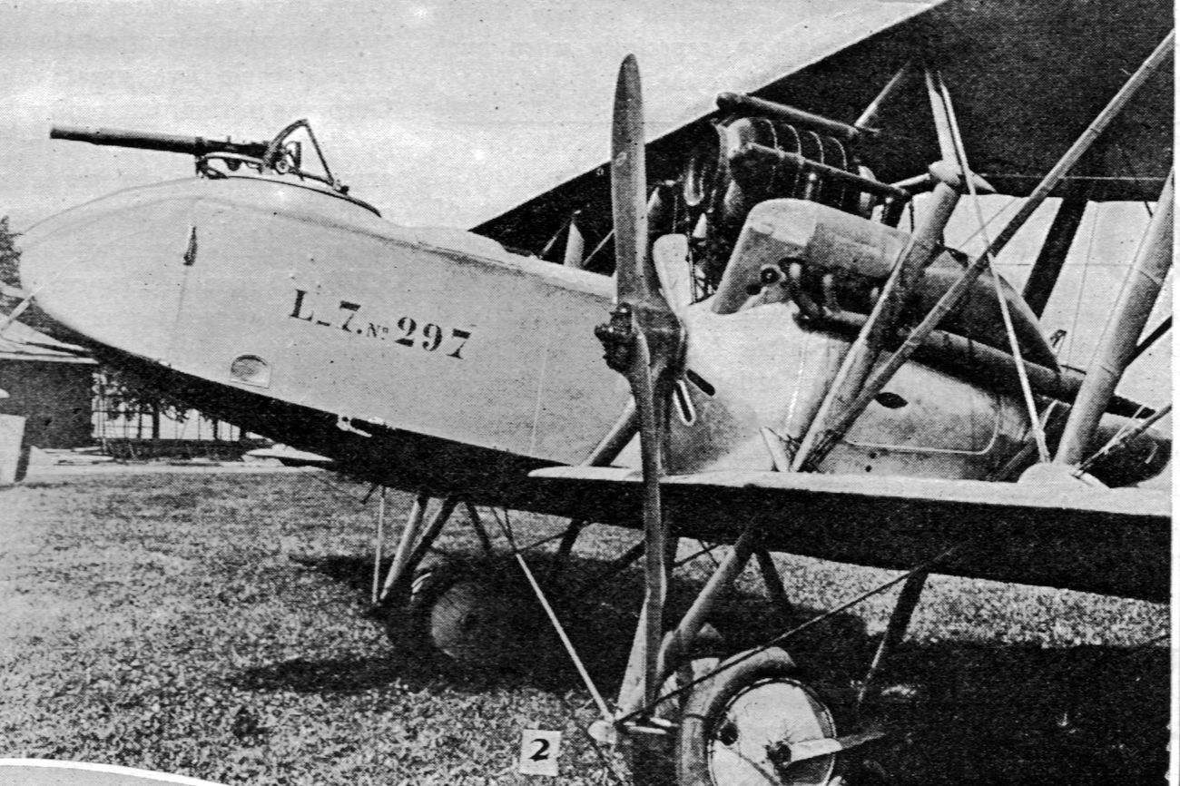 French World War 1 aircraft that had a crew of three. Length of 11.06 m (36 ft 3 in) Wingspan: 18.05 m (59 ft 3 in) Height: 3.70 m (12 ft 2 in) Wing area: 62.3 m2 (670 ft2) Empty weight: 1,660 kg (3,650 lb) Gross weight: 2,450 kg (5,390 lb) Powerplant: 2 × Lorraine-Dietrich